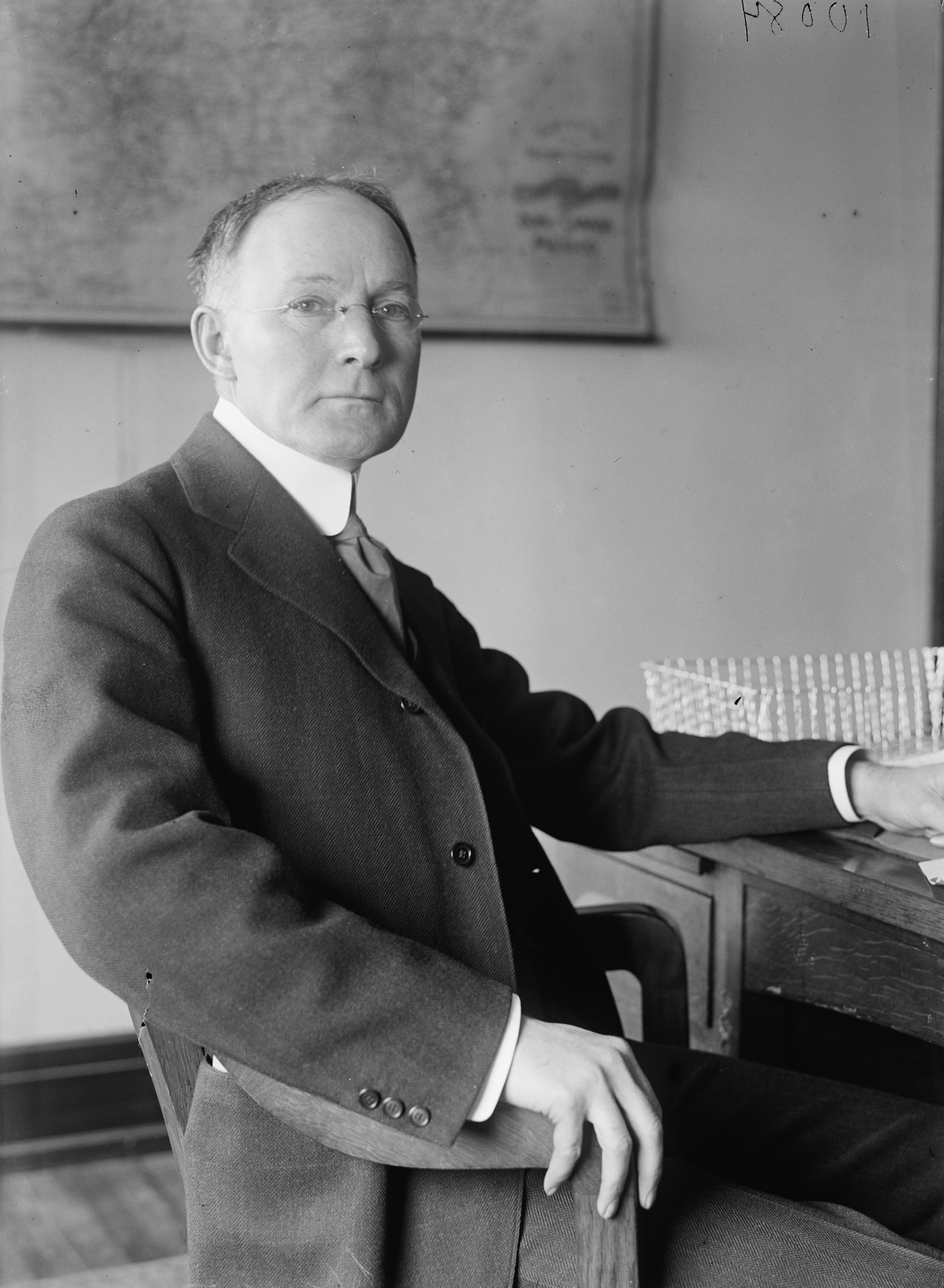 Title: HINES, WALKER D. DIRECTOR GENERAL, U.S.R.R. ADM., JANUARY 10, 1919. AT DESK Abstract/medium: 1 negative : glass ; 5 x 7 in. or smaller